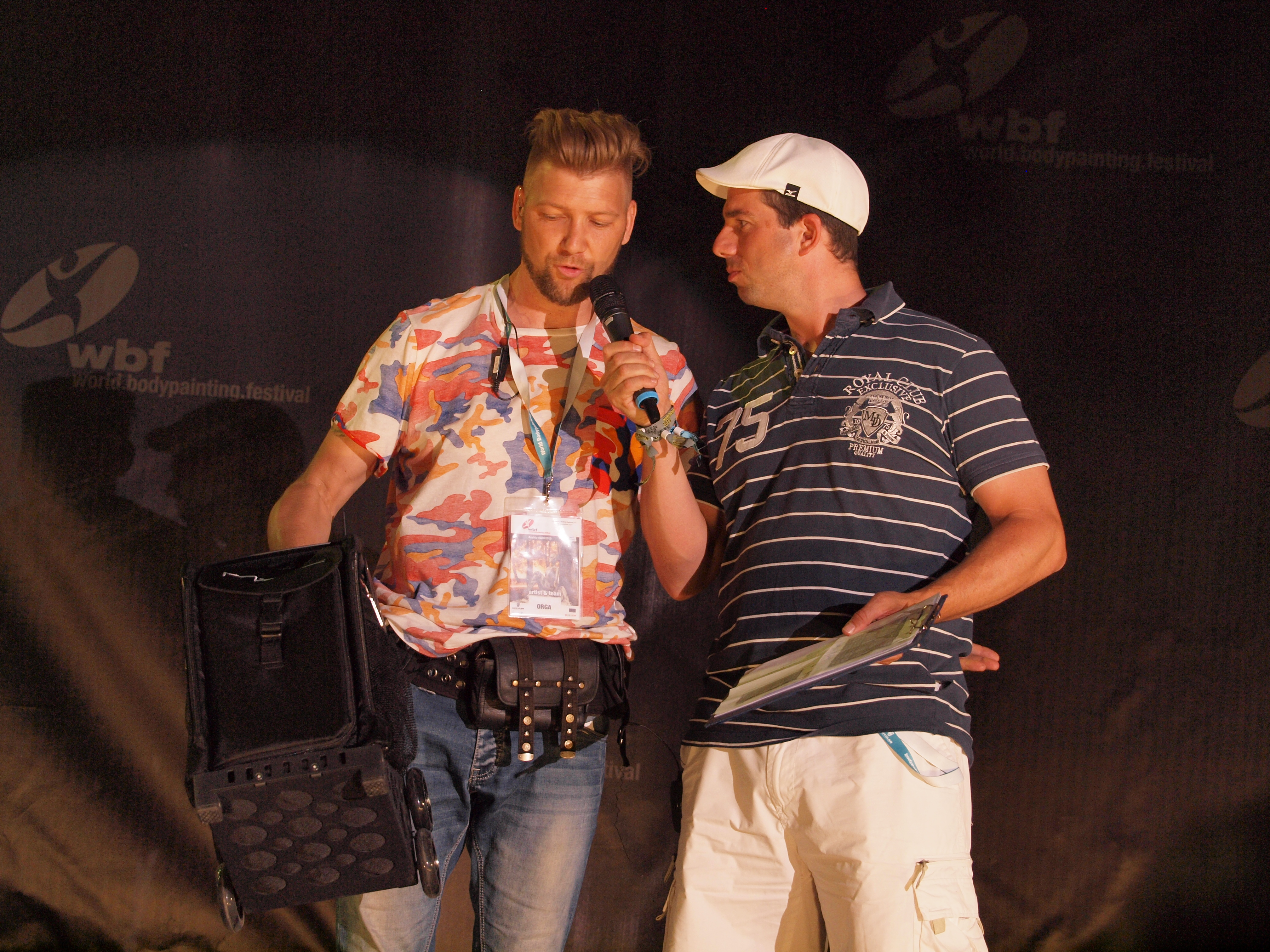 Alex Barendregt (left), the inventor and main organiser of the World Bodypainting Festival, together with Markus Schenkeli (right), the host of the same festival, photographed at the festival in Pörtschach am Wörthersee, Carinthia, Austria, in July 2015.